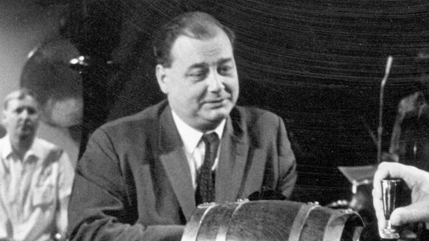 Swedish journalist and writer Torsten Ehrenmark (1919-1985)